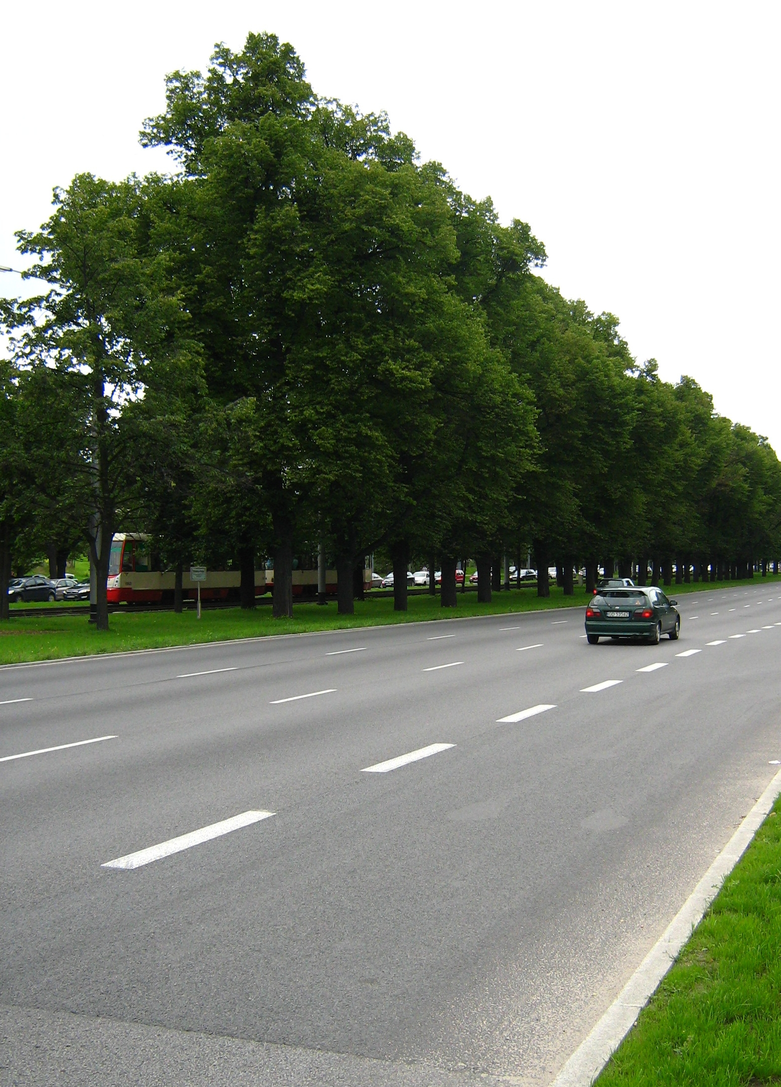 Zwycięstwa Ave. in Gdańsk.